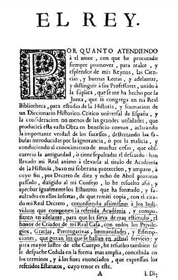 Royal Decree of june 17, 1738, in which the first Statutes of the Royal Academy of History of Spain were approved.